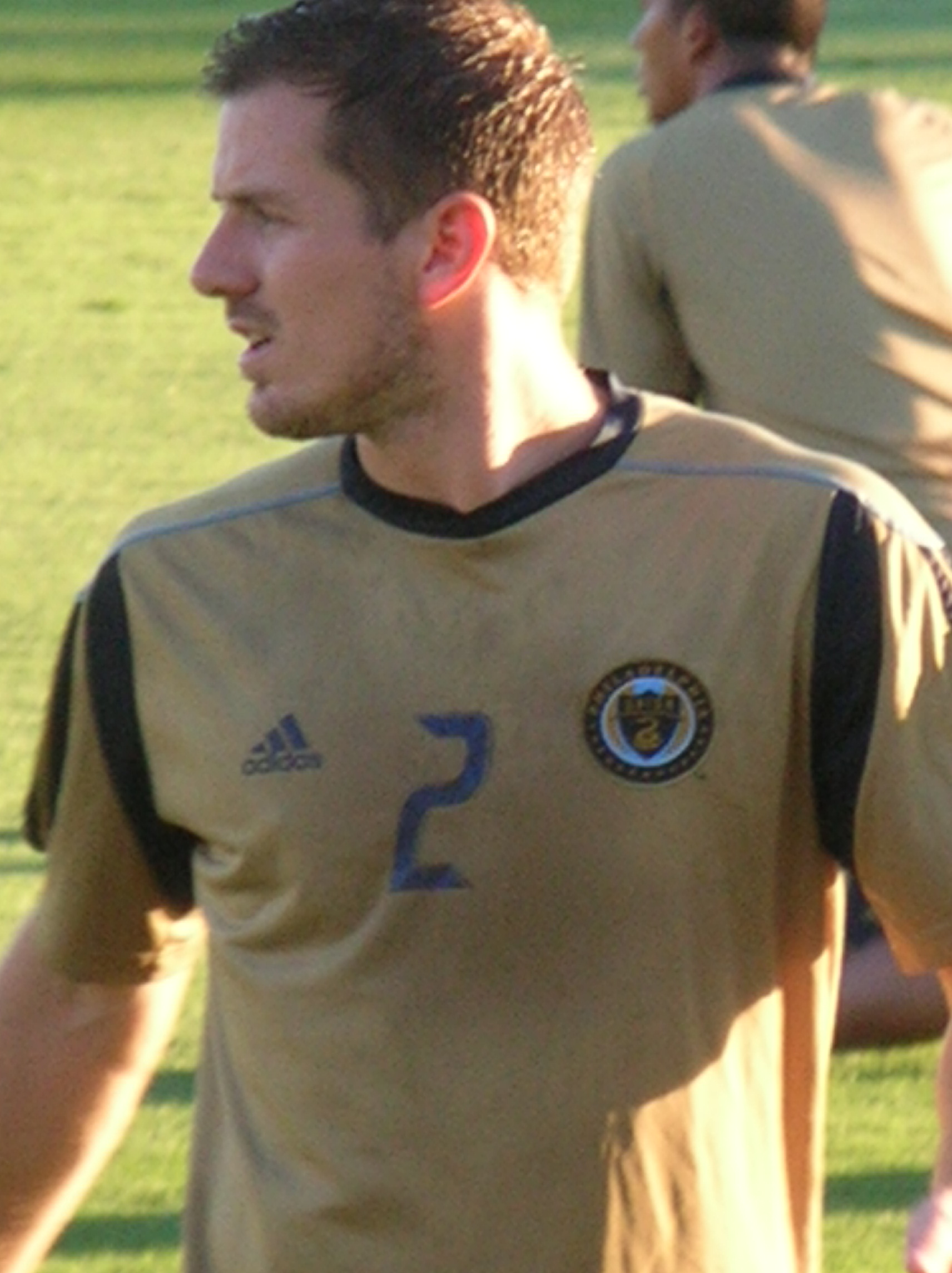 Philadelphia Union defender Jordan Harvey warming up before an away game against the San Jose Earthquakes. The Earthquakes won 1-0.